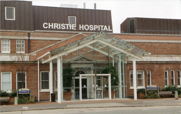 A photograph of Christie hospital taken from the Wilmslow Road side of the hospital.